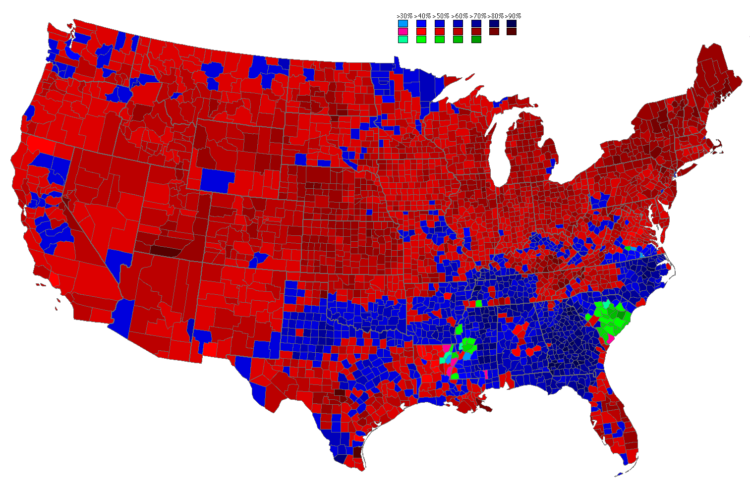 Presidential election results by county (1956).